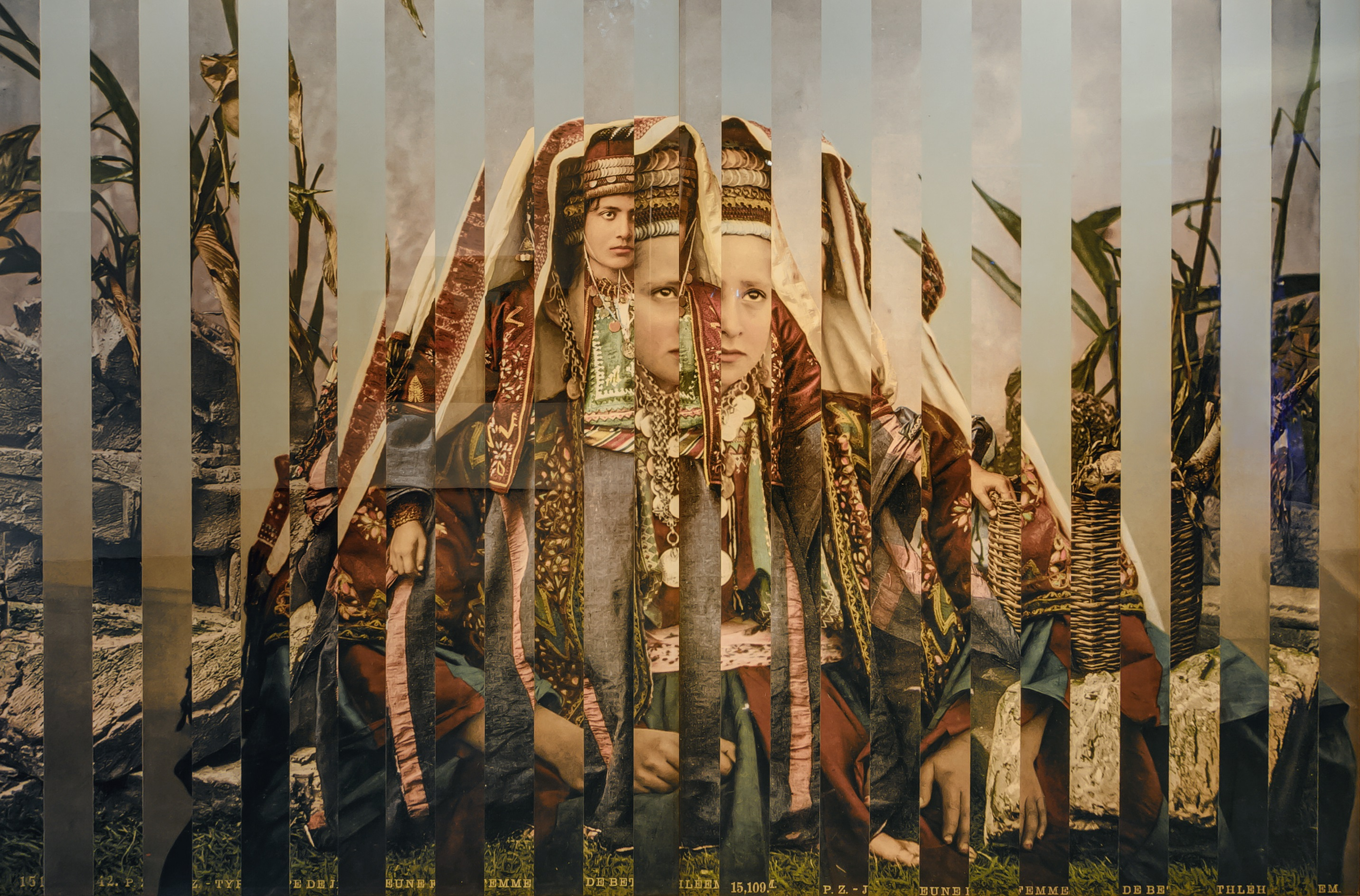 Layers of collaged archival fine art on MDF wood by Hazem Harb